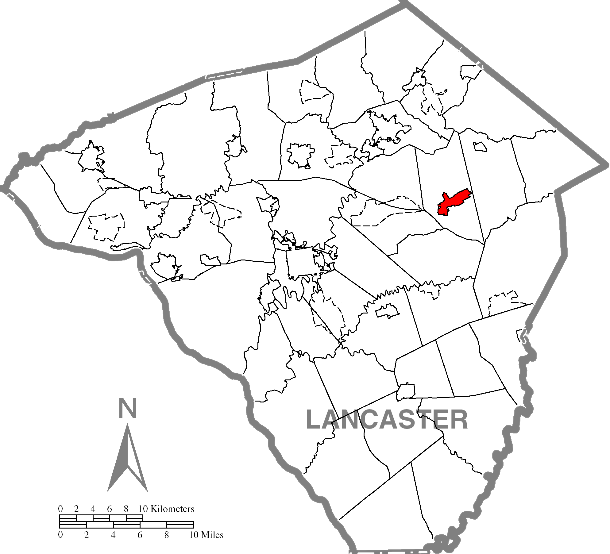 Highlighted Lancaster County map of New Holland.